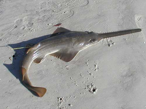 Pristis zijsron